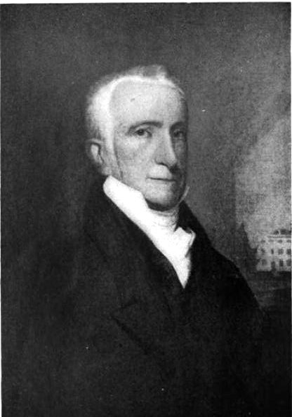 Portrait of Gardiner Greene, 19th c., Boston